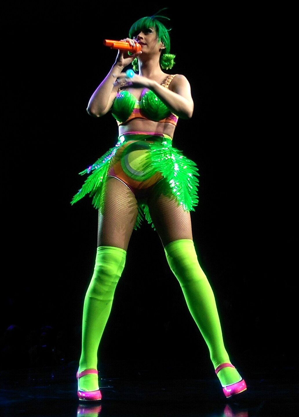 Katy Perry at the The Palace of Auburn Hills, Detroit, Michigan, on August 11, 2014.